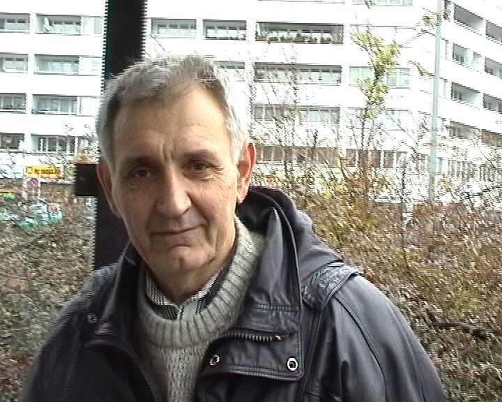 Victor Sokirko, Soviet dissident